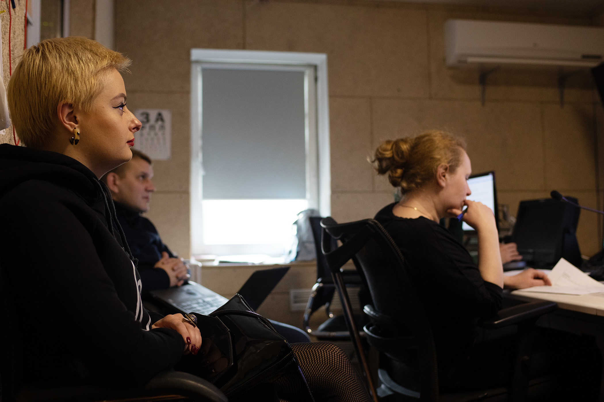 Oleksandra Gontar during filming of the "#@)₴?$0 with Michael Shchur" late-night show.